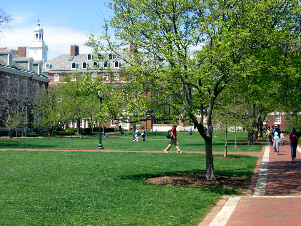 Wyman Quad at the Johns Hopkins University, Maryland, USA.